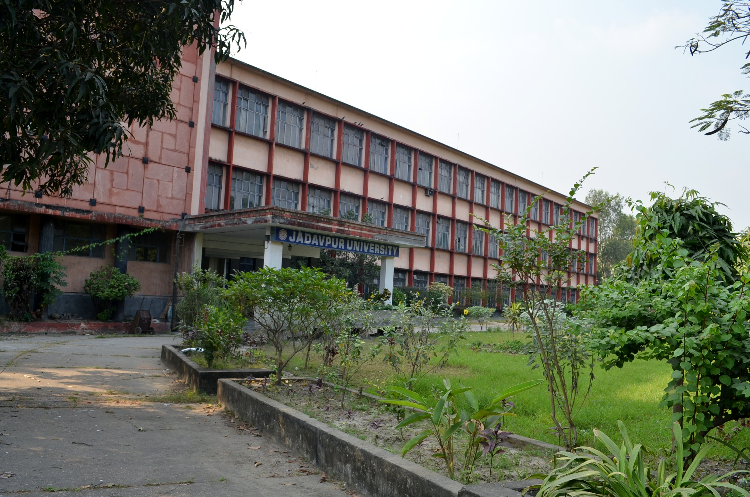 The new campus of Jadavpur University on Raja S.C. Mullick Road